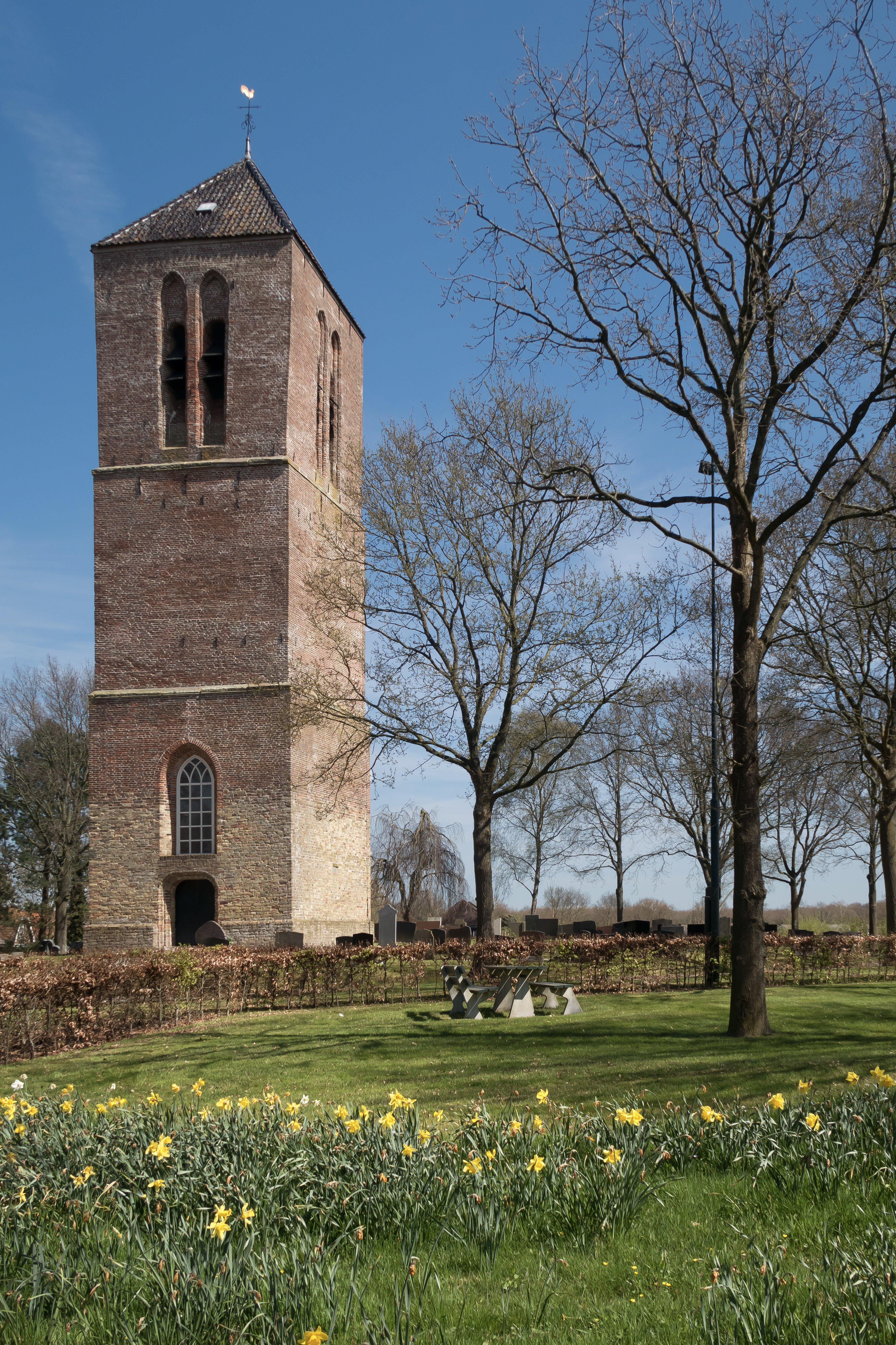 Nijemirdum, the churchtower in Nijemirdum